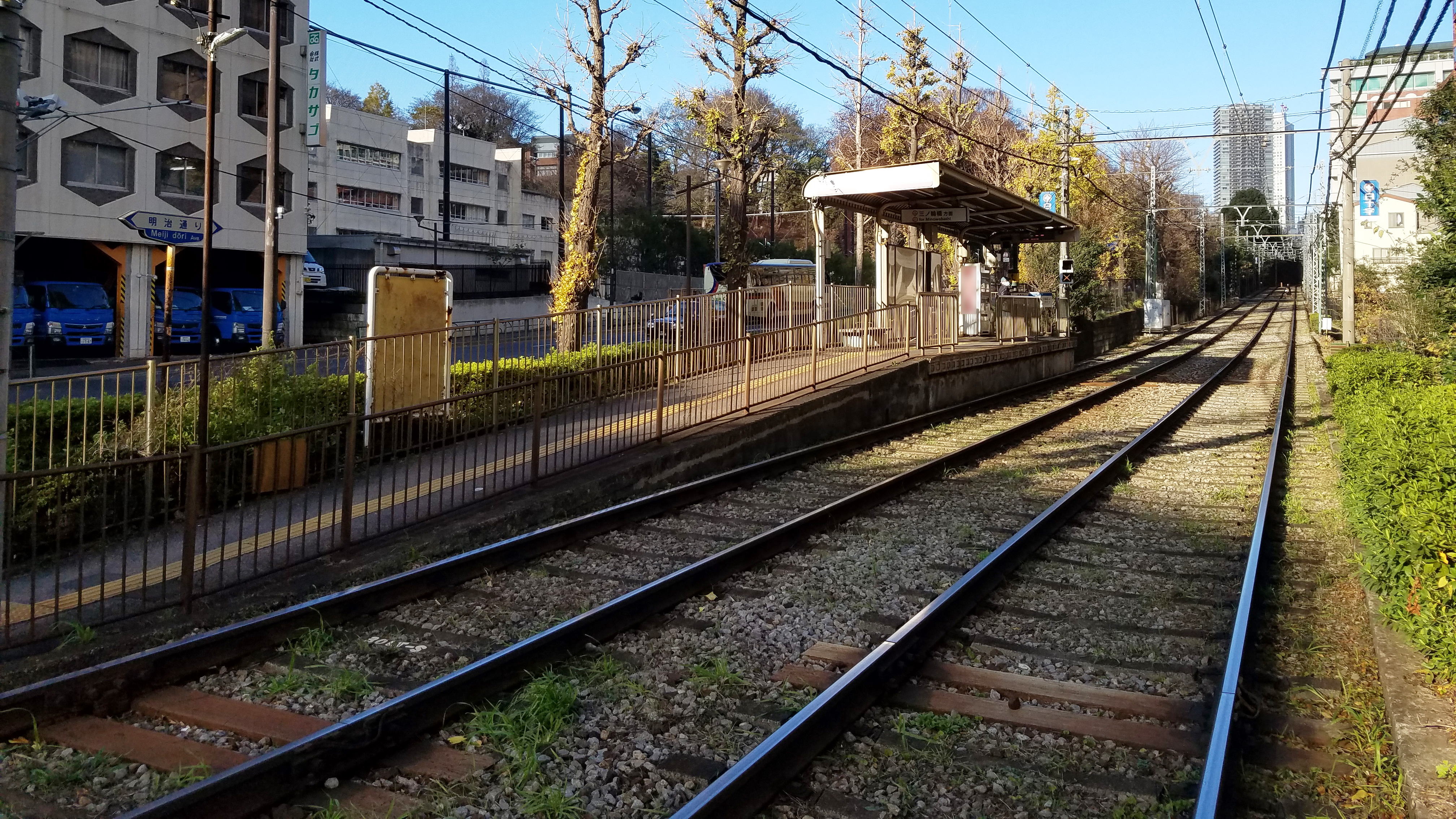 The Minowabashi-bound platform at Gakushūinshita Station on the Toden Arakawa Line(Tokyo Sakura Tram) in Toshima city, Tokyo, Japan